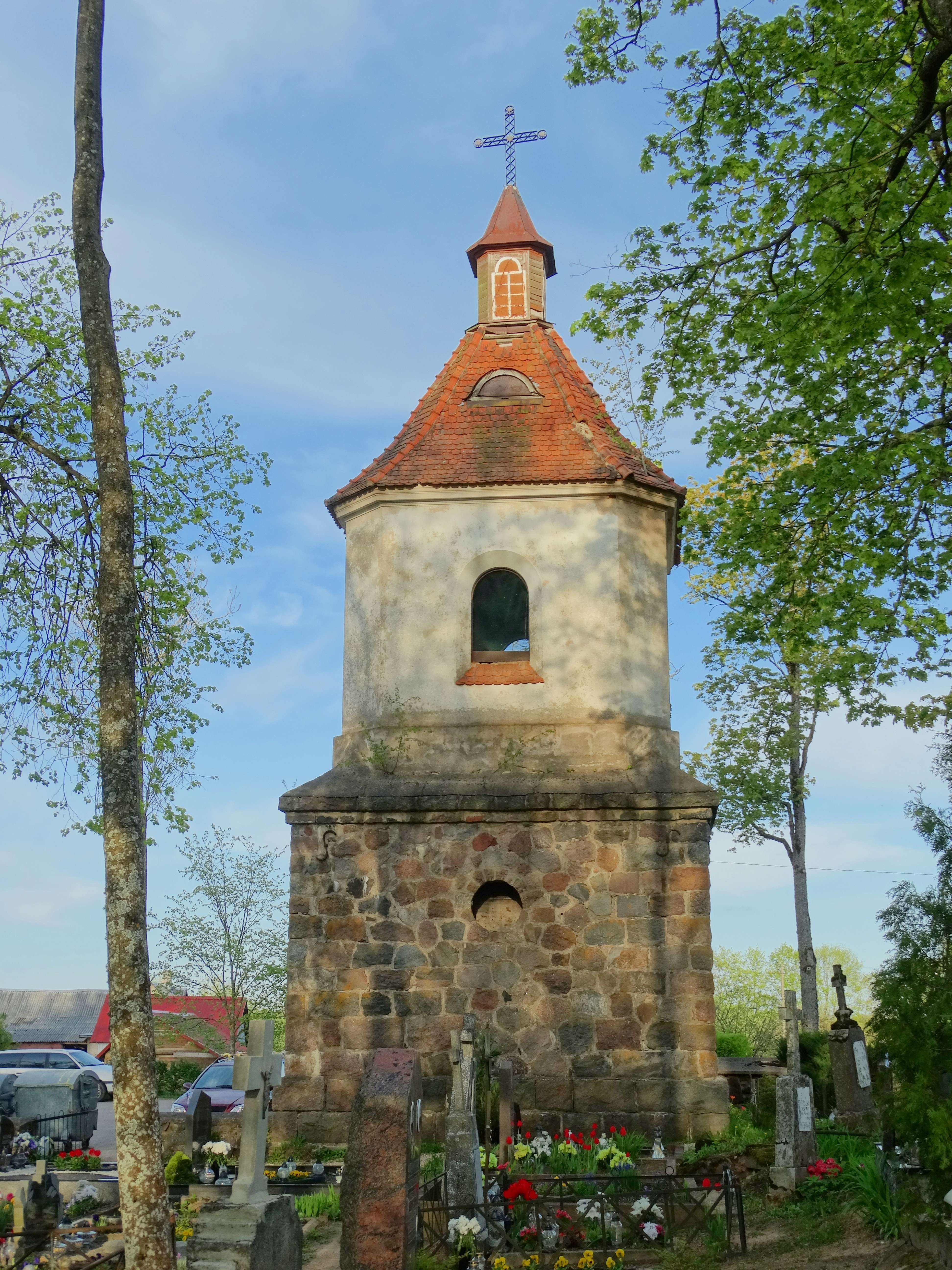 Bell tower, Sudervė, Lithuania